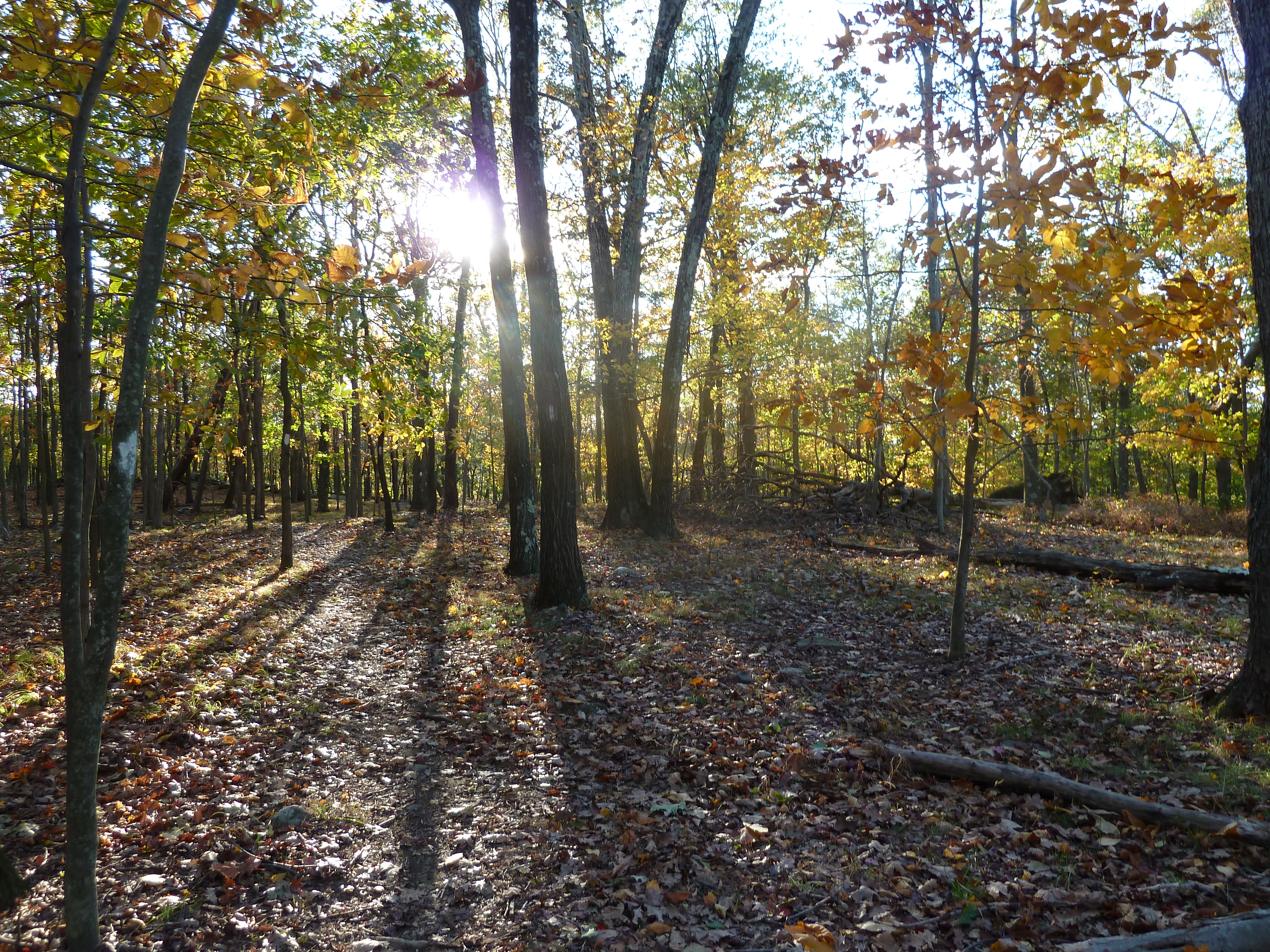 The woods along the White trail in Seth Low Pierrepont State Park Reserve nearing sunset.